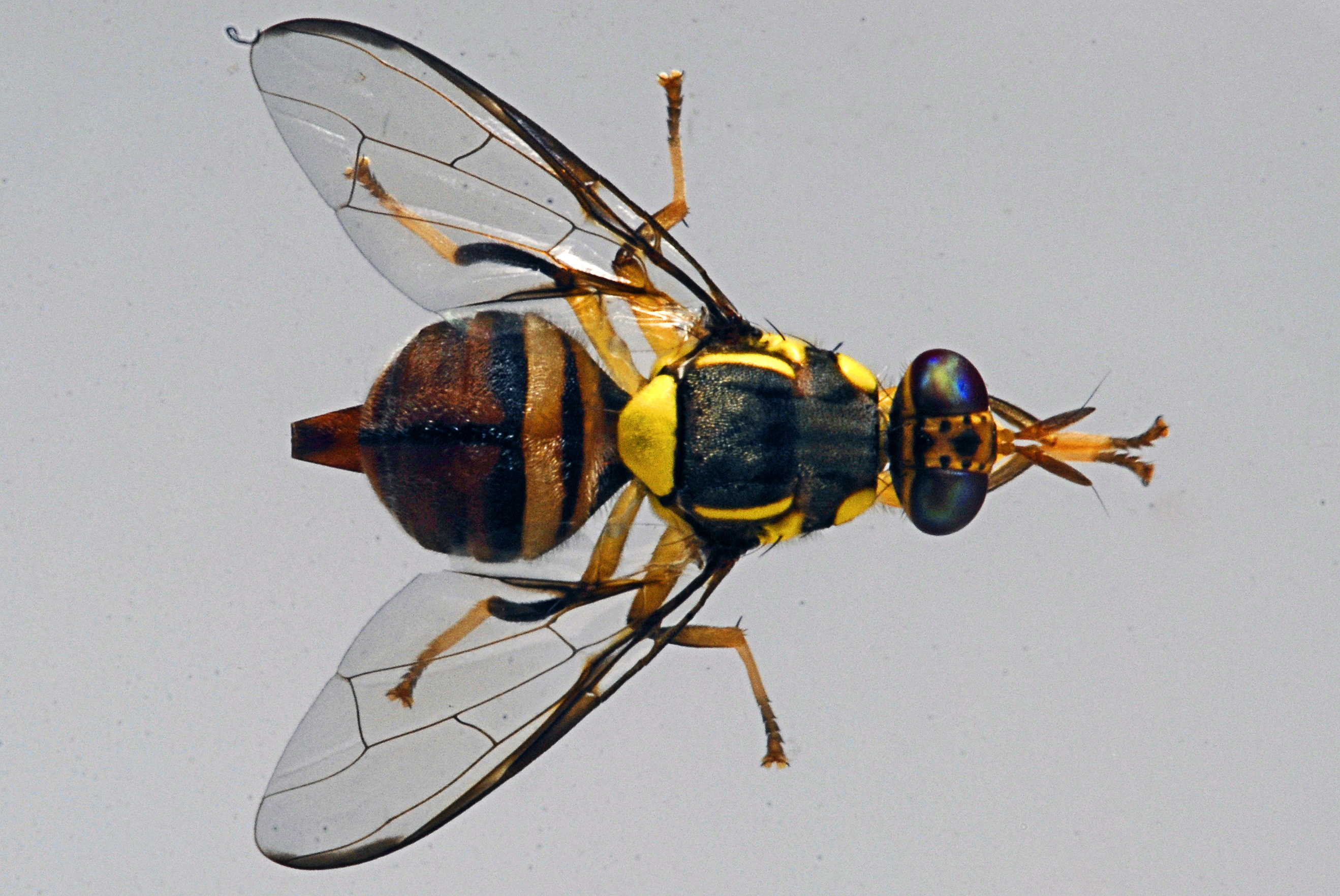 Bactrocera dorsalis (complex) Entomology Unit IAEA Seibersdorf, Austria Bactocera dorsalis: Origin: Asia, Suriname, Brazil, Hawaii Common name: Oriental fruit fly Host: Most fruits and fruiting vegetables, wild hosts. Damage: Highly significant economic damage. Copyright: IAEA Imagebank Photo Credit: Viwat Wornoayporn / IAEA